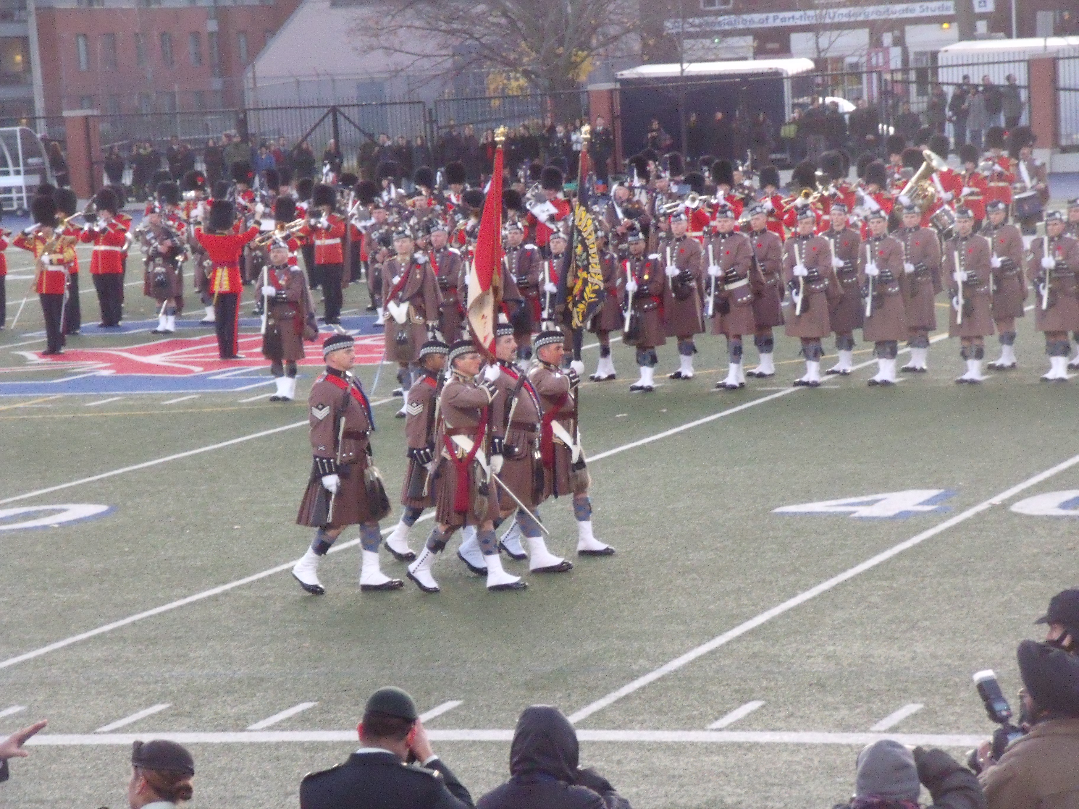 The colours of the Toronto Scottish Regiment (Queen Elizabeth the Queen Mother's Own) are marched off.